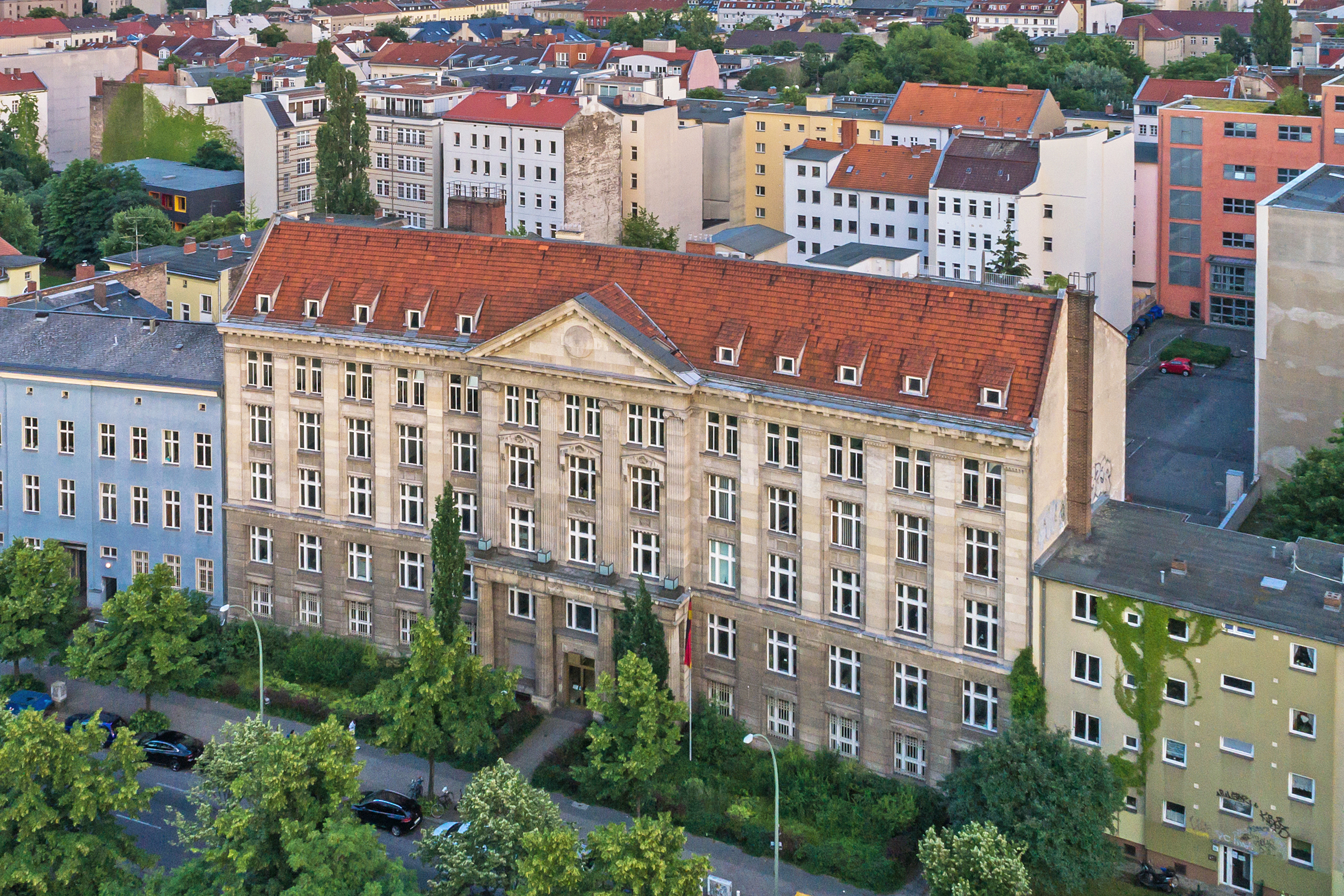 Aerial photo of Tempelhofer Ufer in Berlin (Germany)